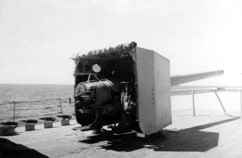 This digital photo was scanned from an original photograph that I believe my father to have taken sometime in 1941 while serving aboard the HMCS Prince David. As he is now deceased and I now have all his photos in my position, I believe that I have the right to publish this and other photos from his collection.